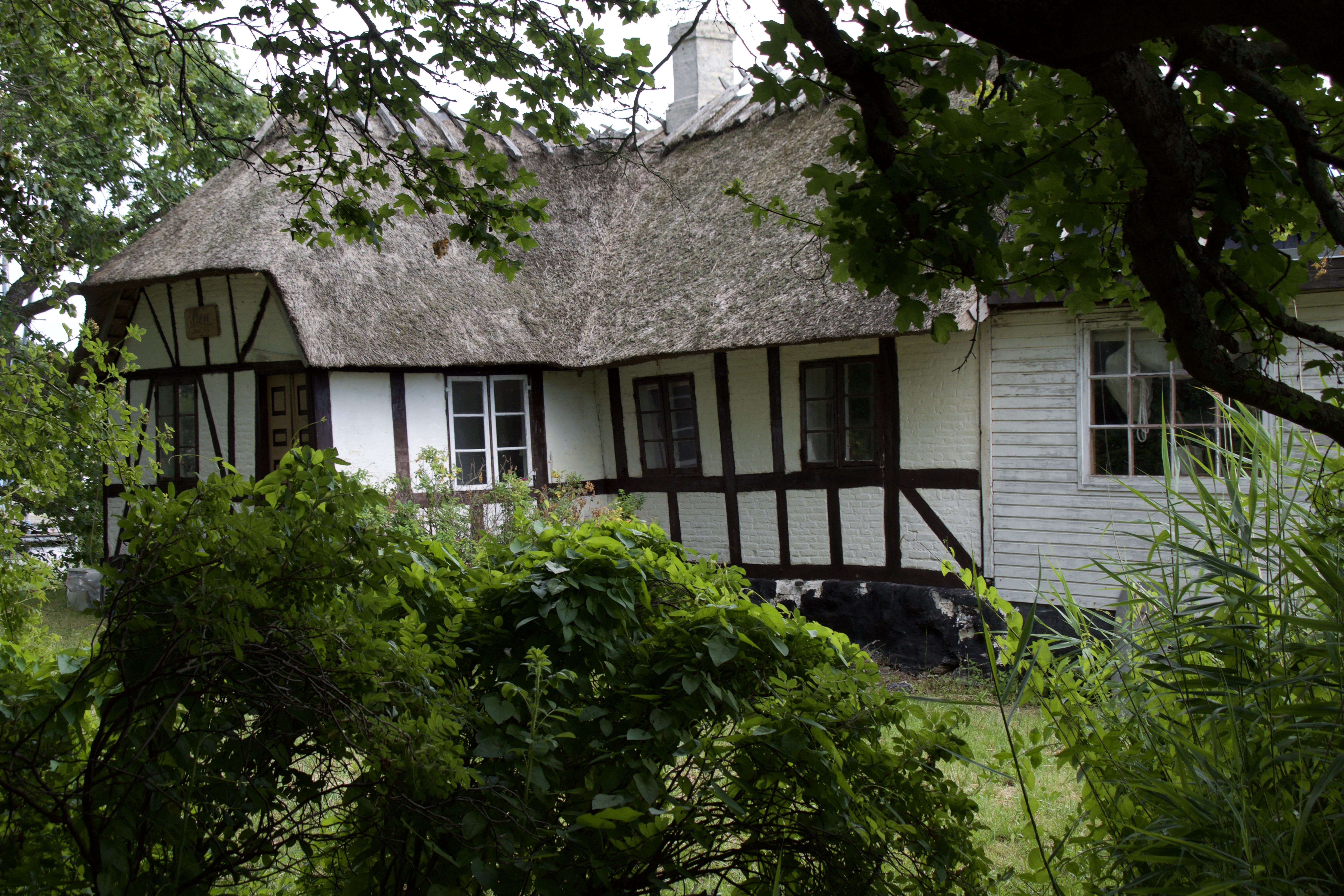 The House of Per Gut, aka. Øen Anno 1870, Thurø in DenmarkDansk: Per Guts Hus, Øen Anno 1870, Thurø i Danmark